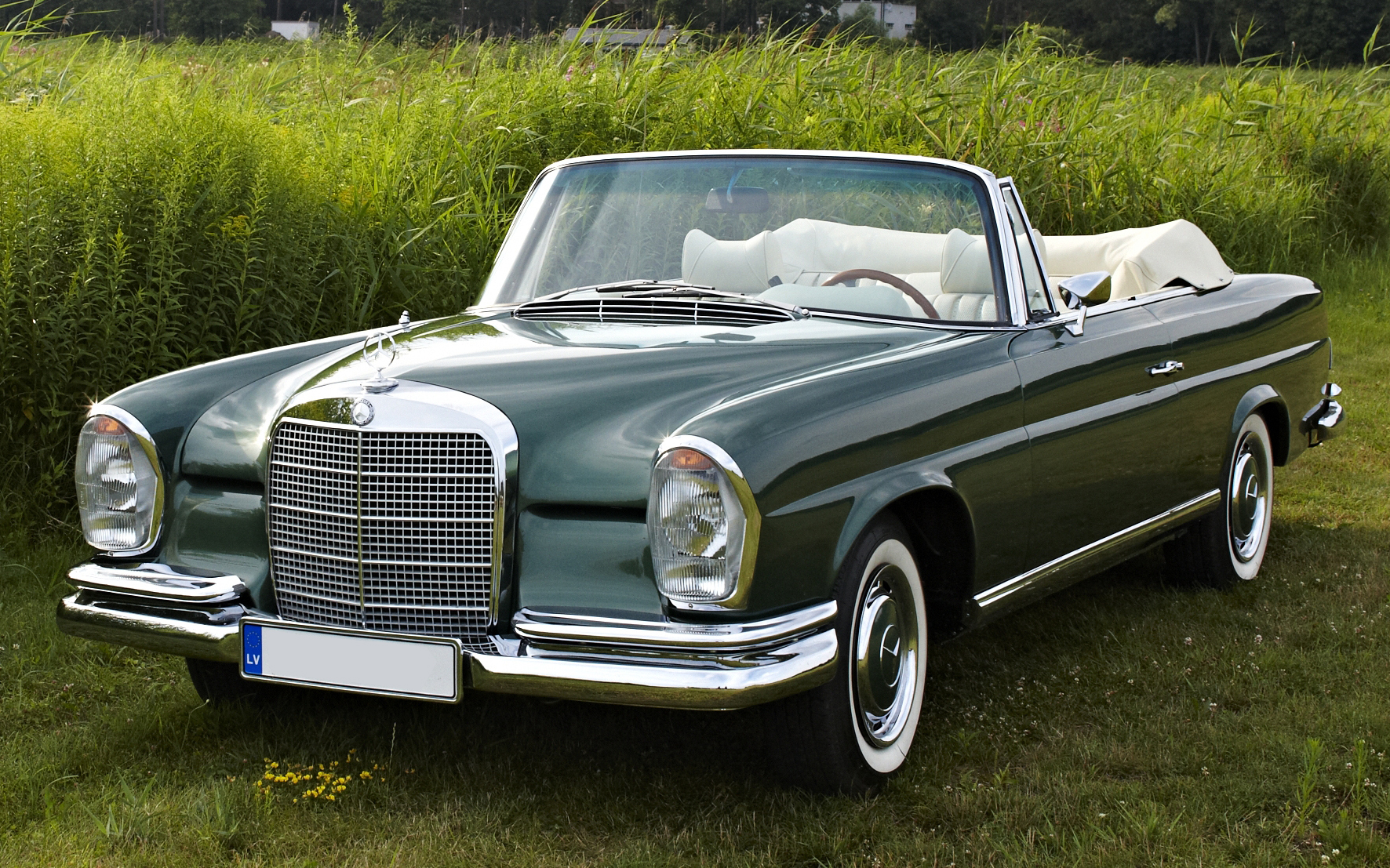 Mercedes Benz 280SE 1969